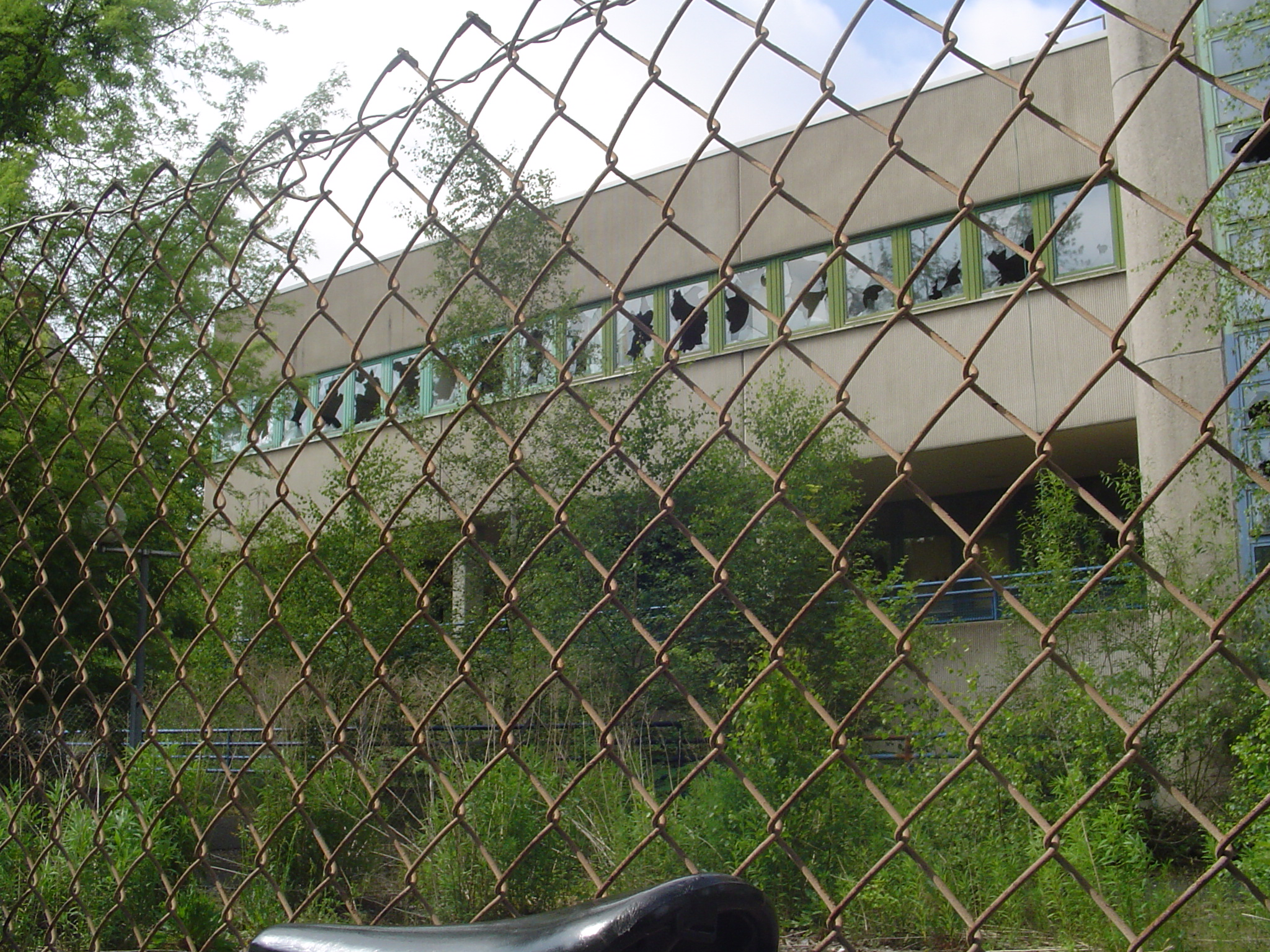 ruins of Broendby School in Berlin-Lankwitz, Germany. Building had to be abandoned due to Asbestos. Shot from East.